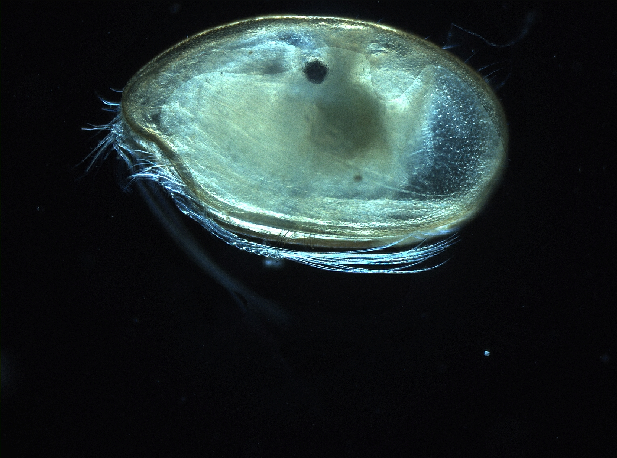 Author: Anna Syme